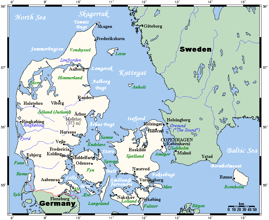 A map showing Denmark and nearby areas. This map's source is here, with the uploader's modifications, and the GMT homepage says that the tools are released under the GNU General Public License. This is meant to supersede a former file called Image:Denmarkmap.gif. This version is a bit less busy but actually contains more information (well, a bit more, anyway). Kelisi 00:49, 16 July 2007 (UTC)